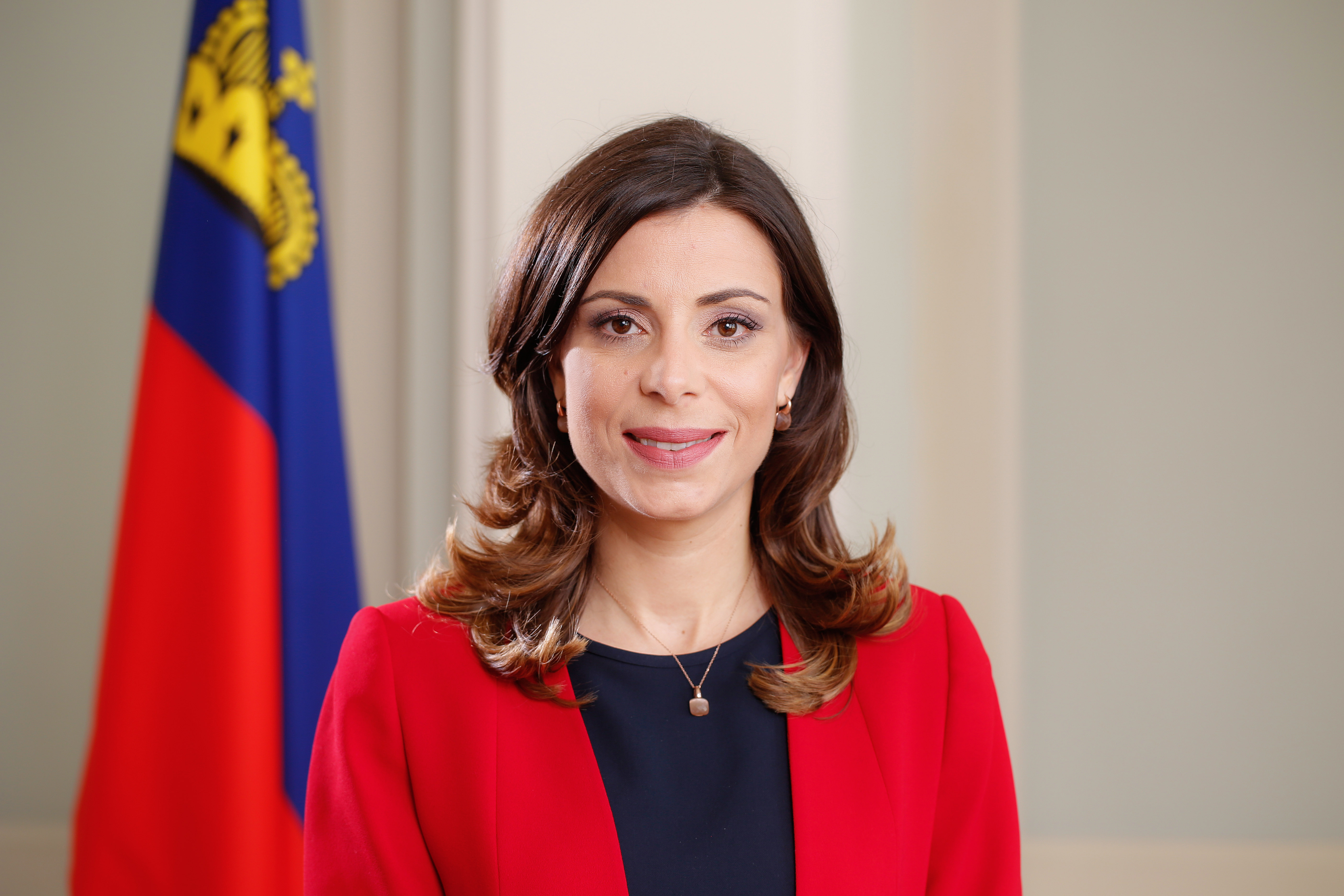 Dominique Gantenbein is a minister of the principality of Liechtenstein.